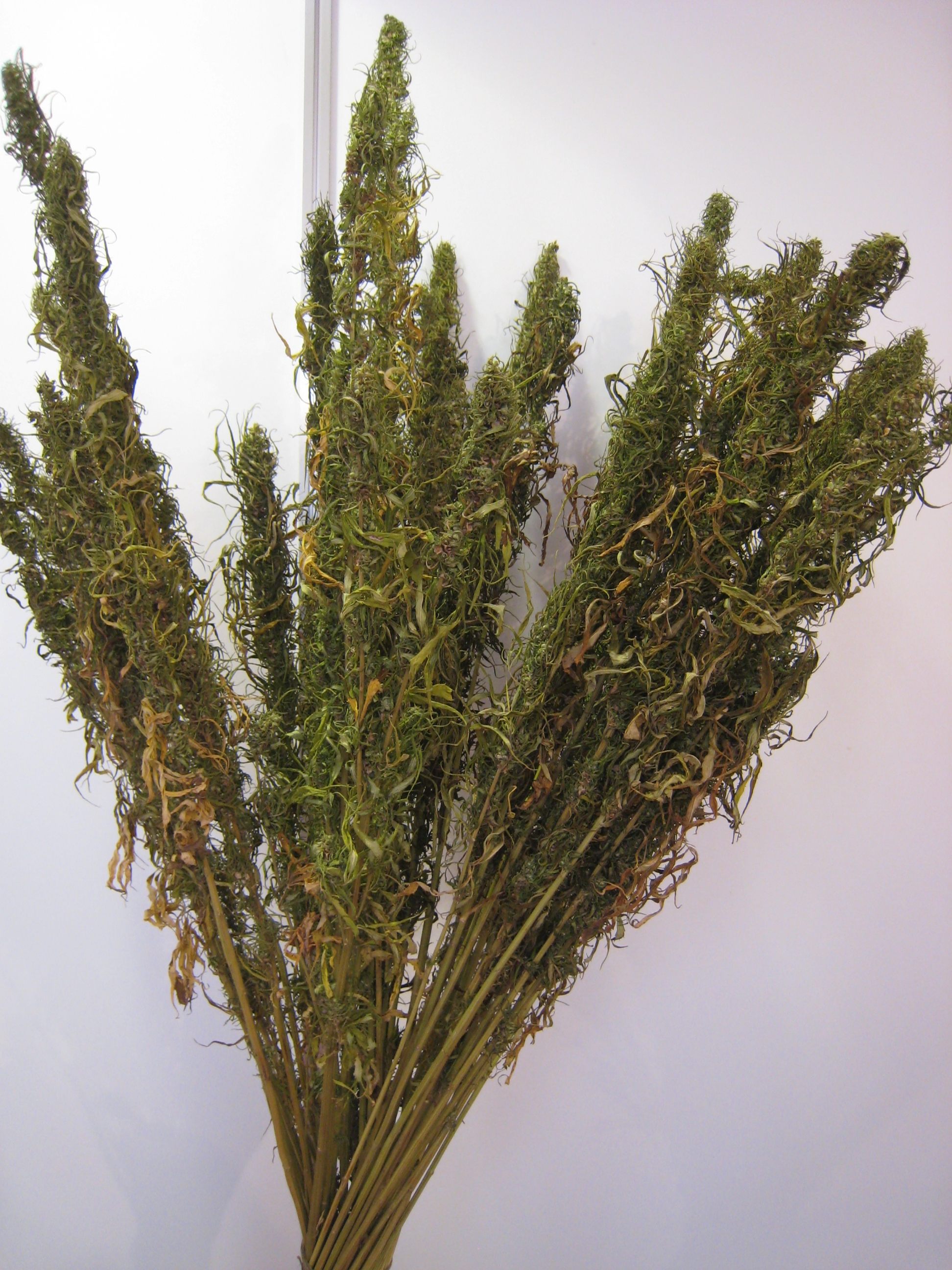 A dried out bunch of hemp